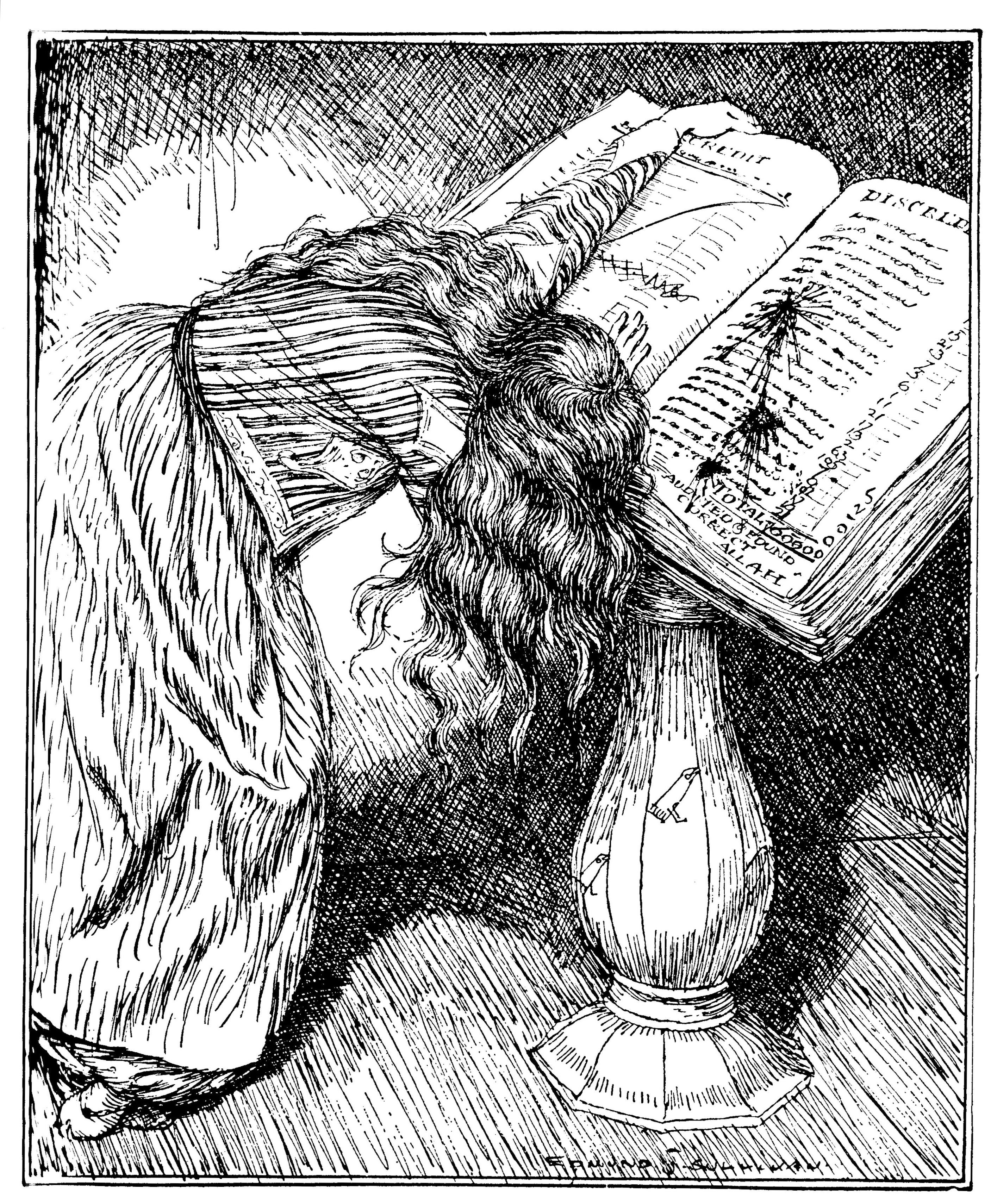 This is a quatrain illustration by Edmund J. Sullivan to the Rubaiyat of Omar Khayyam, First Version (translated by Edward Fitzgerald).